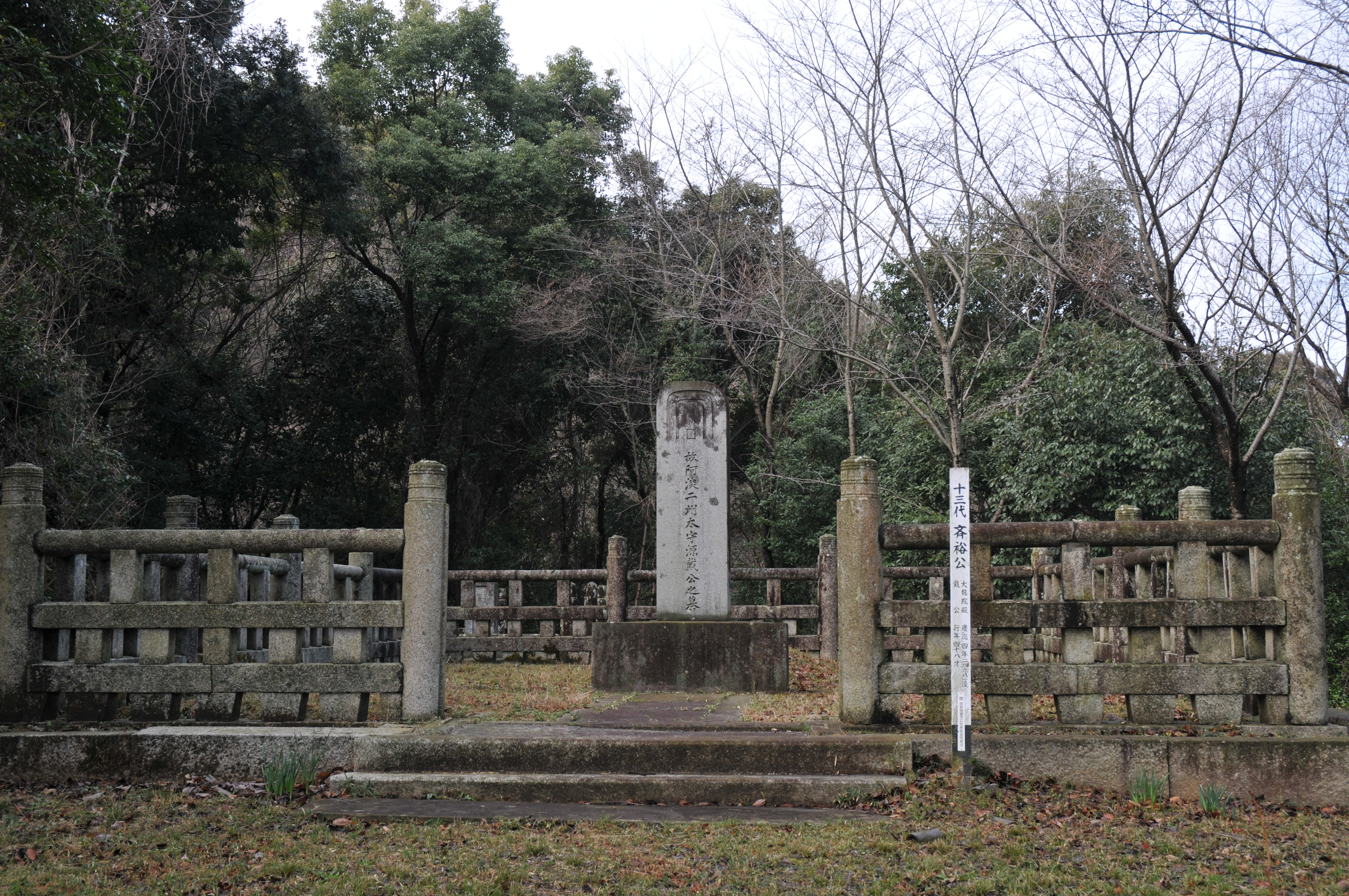 grave of the 13th feudal load Hachisuka Narihiro